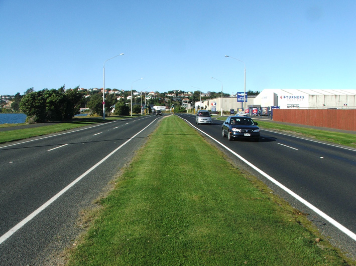 Portsmouth Drive, South Dunedin, New Zealand. Photograph by James Dignan (User:Grutness), 3 May 2009.